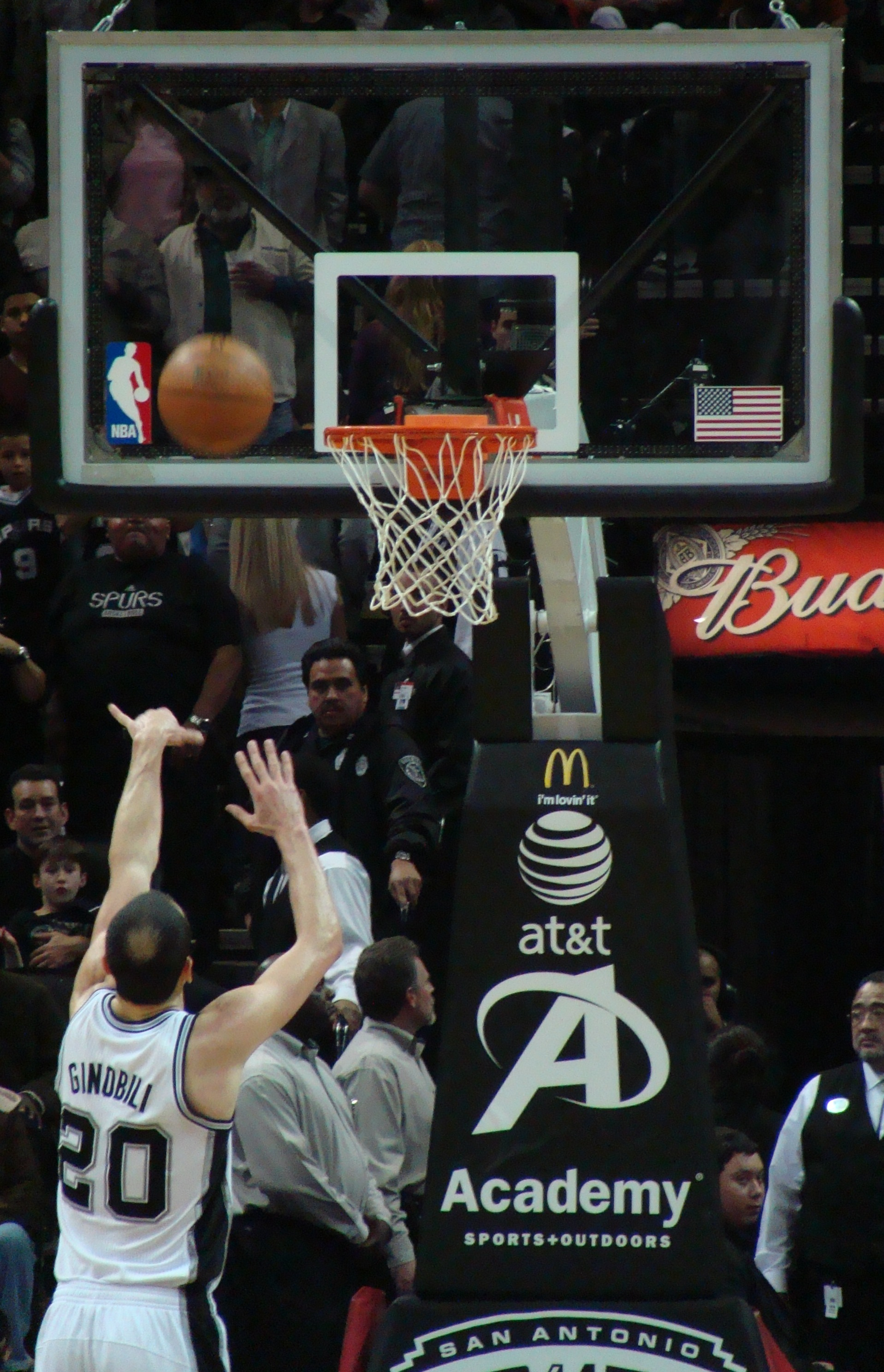 Manu Ginobili during a free throw against the Denver Nuggets.